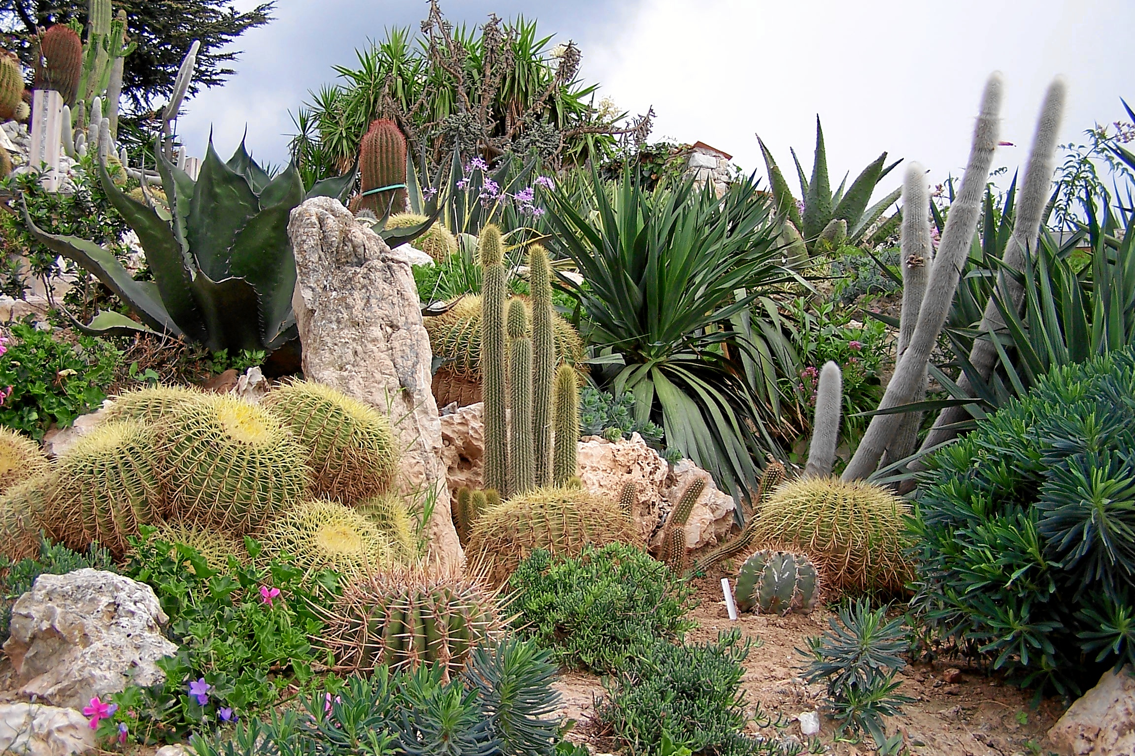 The Exotic Garden in Eze.